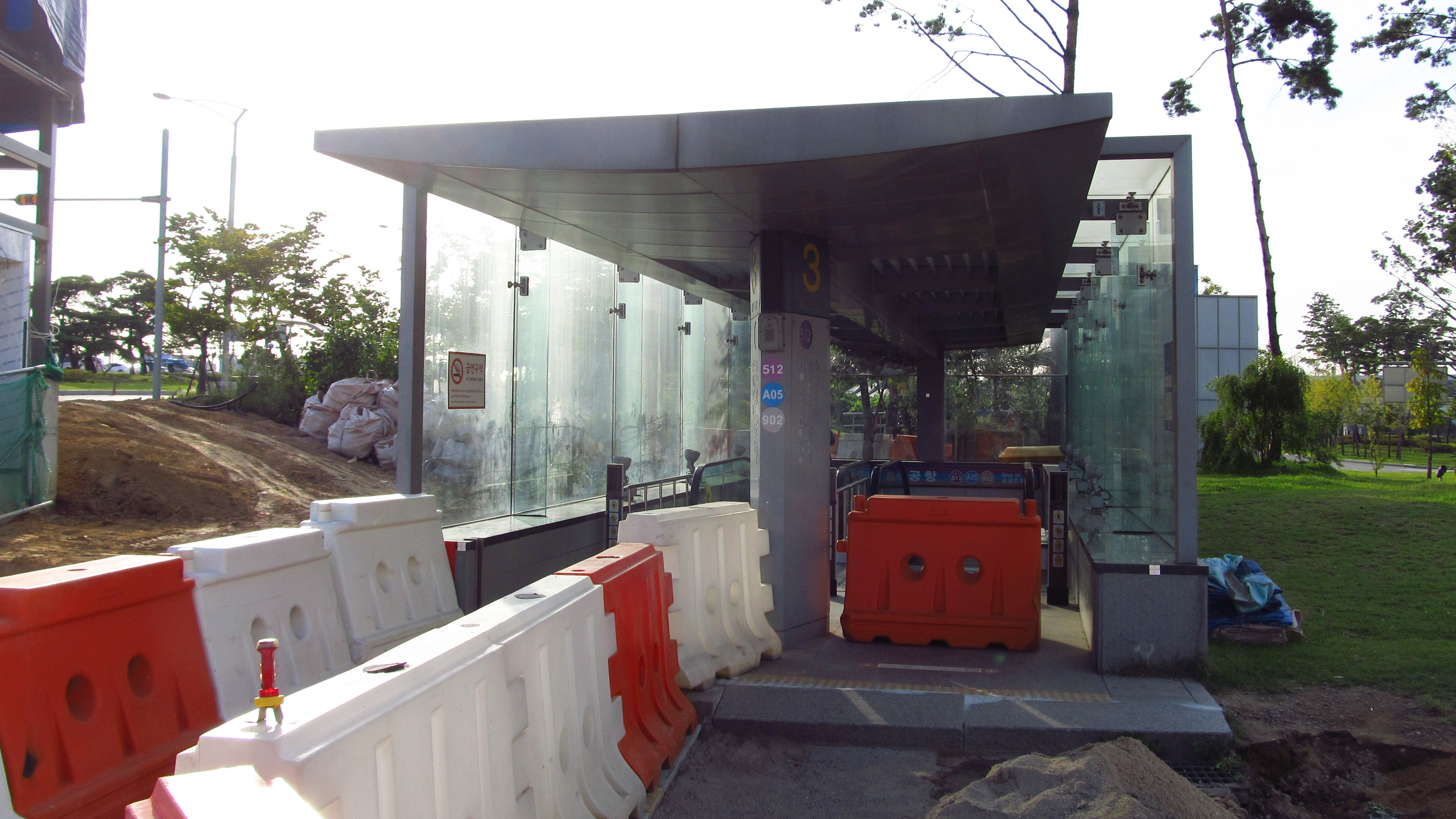 The no.3 entrance to Gimpo International Airport Station on the Seoul Metro Line 5, AREX, Seoul Metro Line 9 in Gangseo-gu, Seoul, Republic of Korea(South Korea)